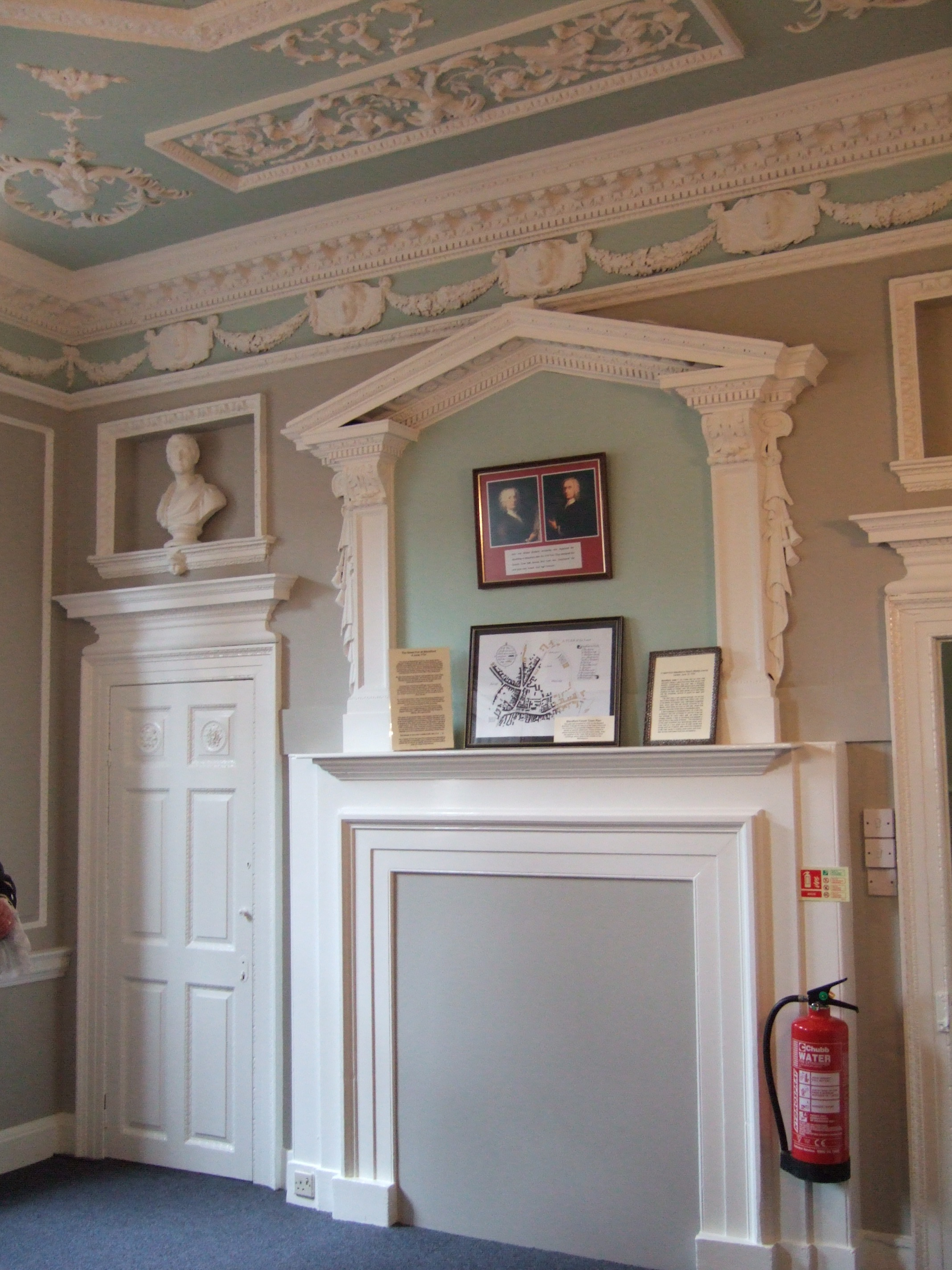 The Bastard Study, in the Bastard House, Blandford Forum. The house is now used by Age Concern. The room is open on one day a year, the first Monday in May during the annual Georgian Fayre at Blandford. The room is otherwise used as a storeroom by Age Concern.